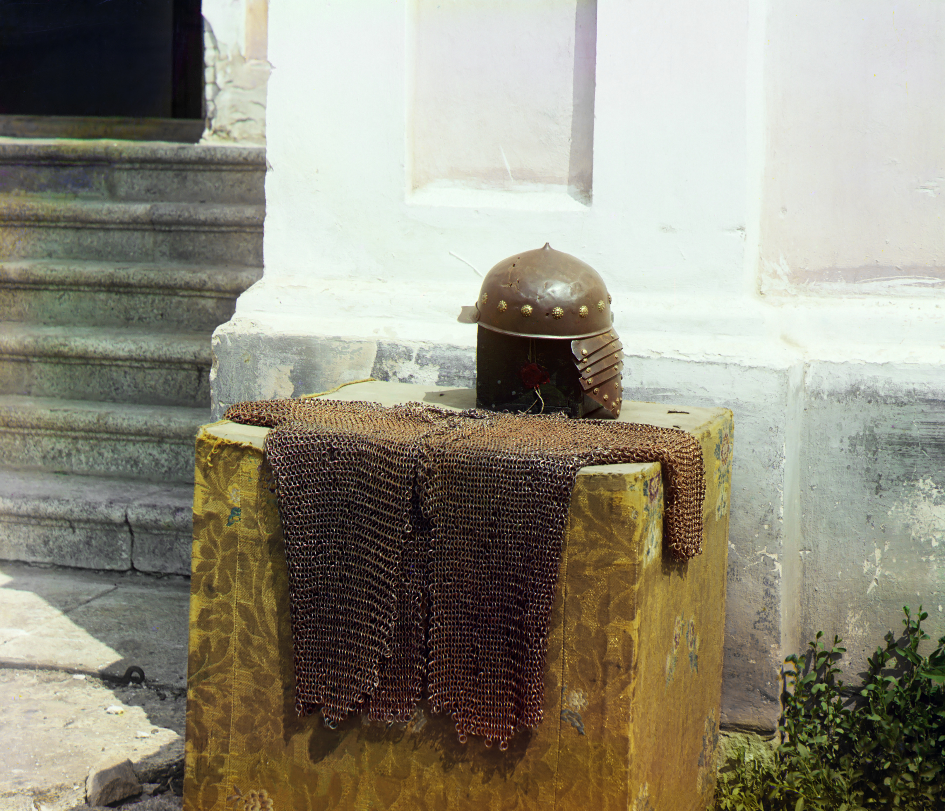 Original Description: Saint Dalmat's hauberk and helmet. [Dalmatovo].